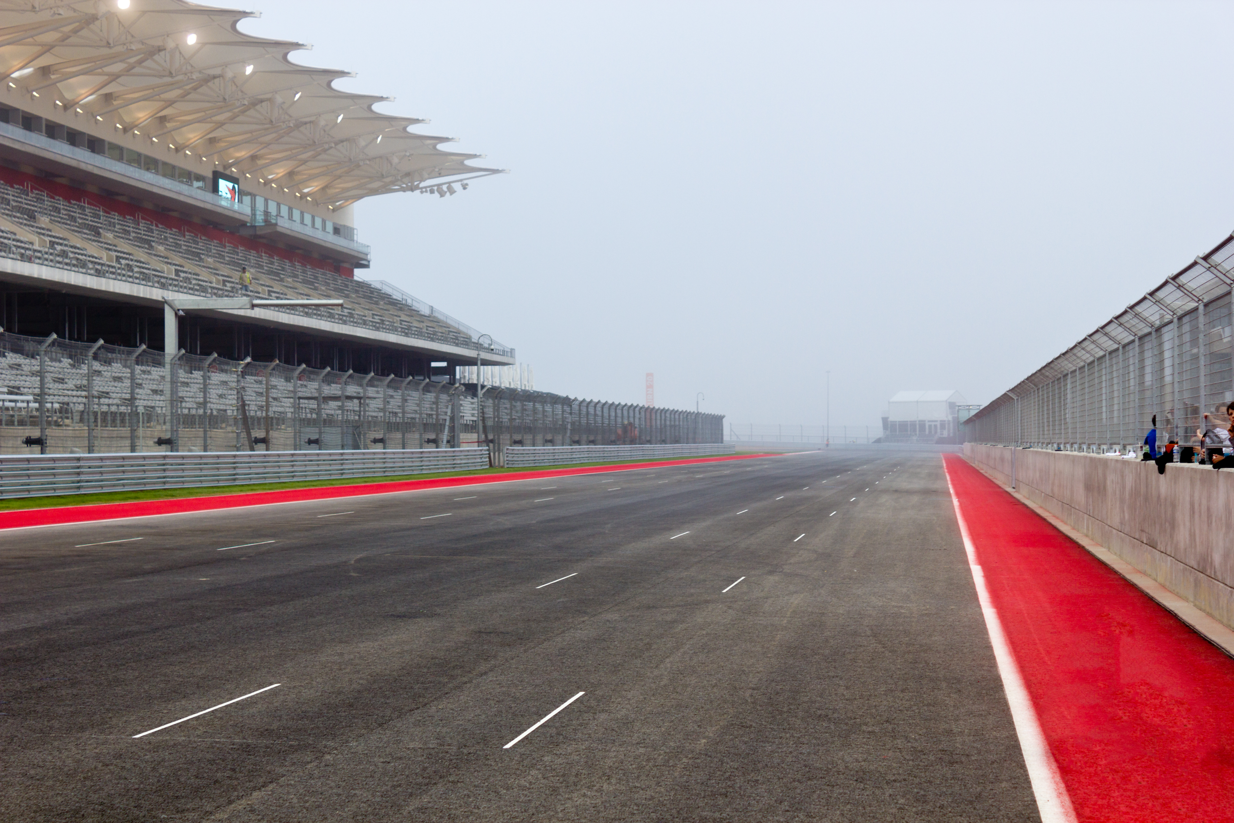 Main Straight COTA